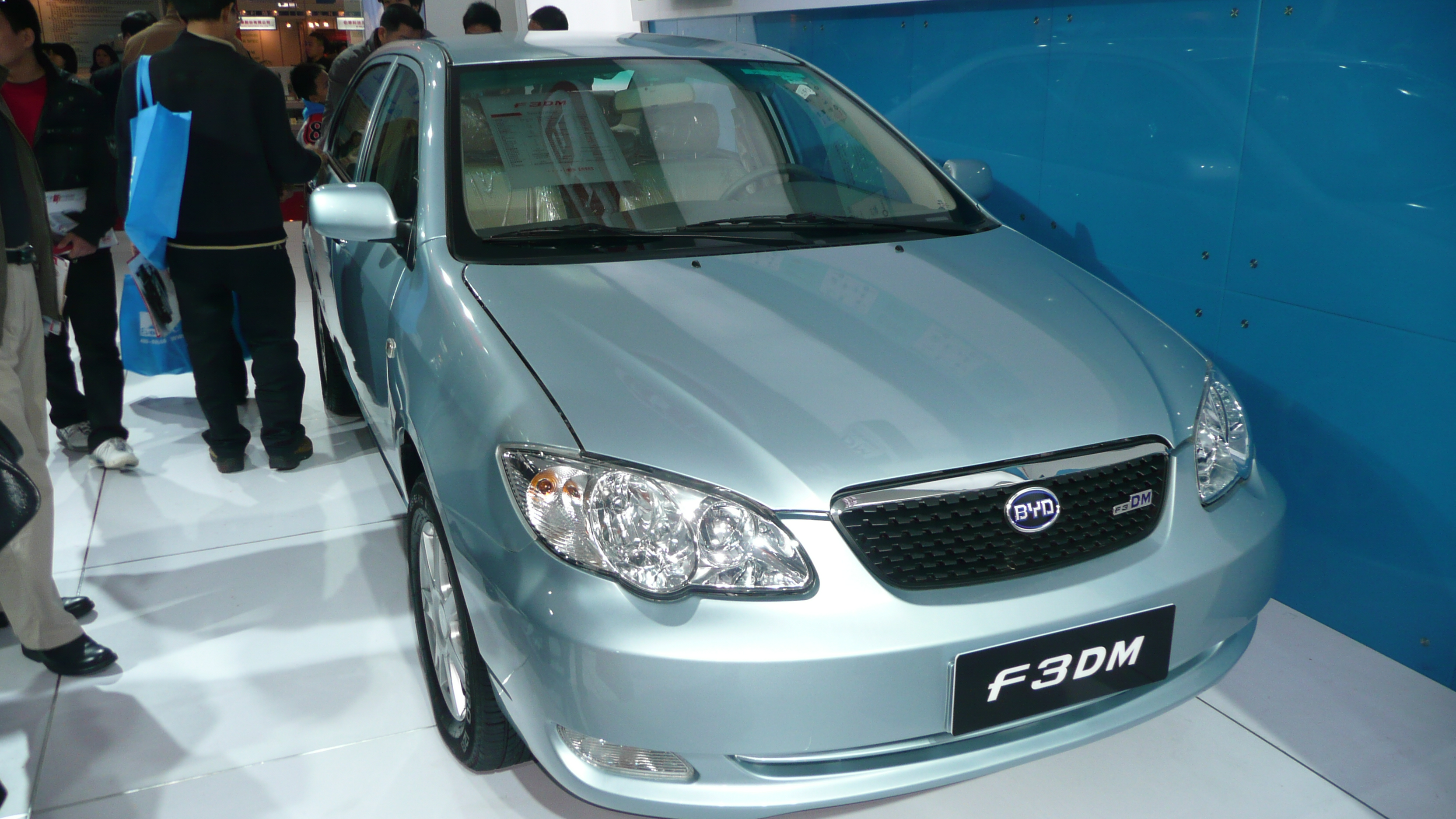 BYD F3 DM at the Central China High-Tech Fair, Shenzhen, November 2009